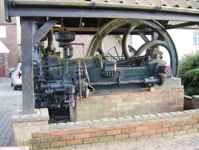 The Crossley oil engine. This Crossley oil engine drove the old corn mill machinery via a drive belt.